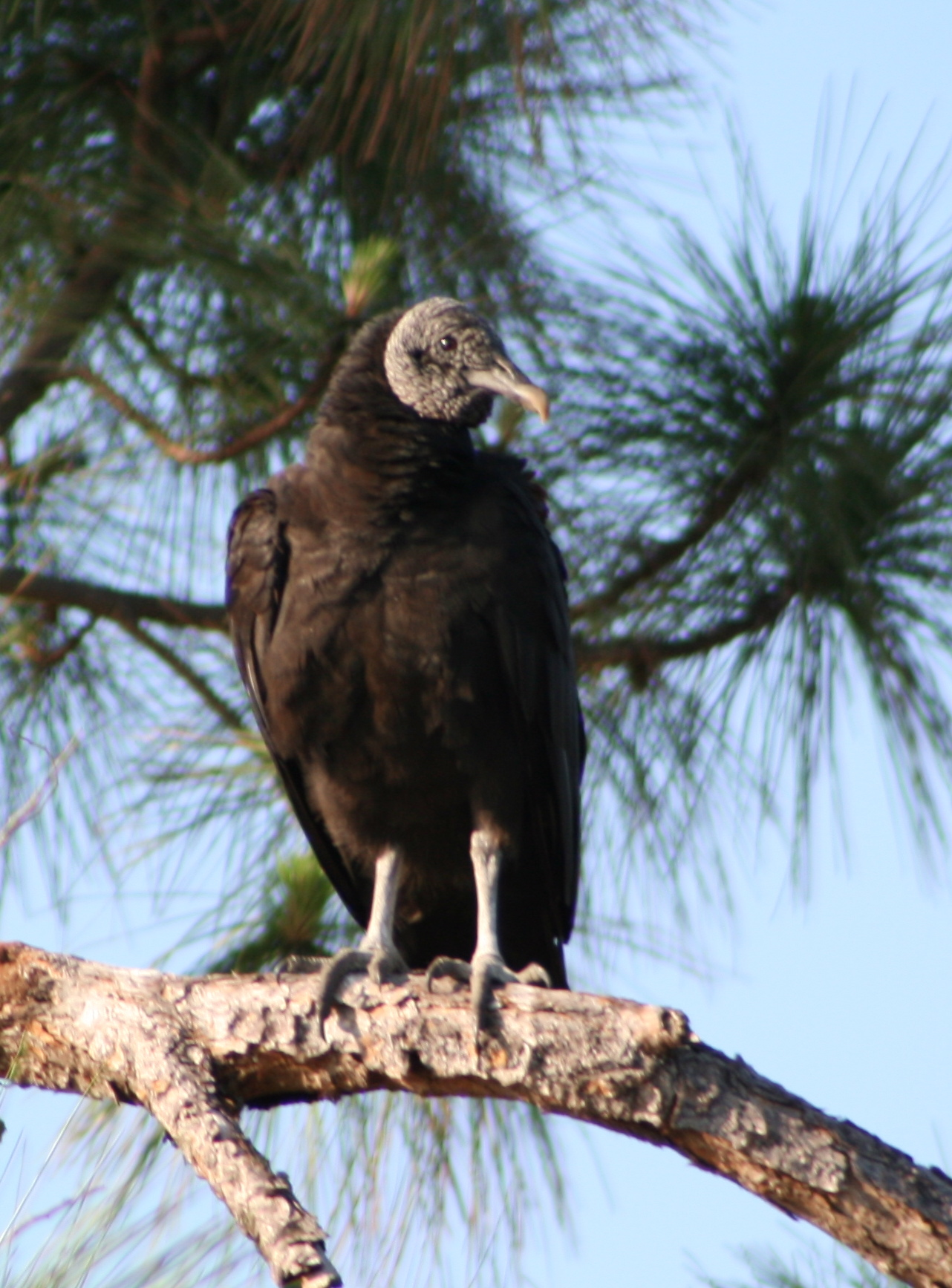 Taken behind the Spanish River Library in Boca Raton, FL on 2/18/2009.